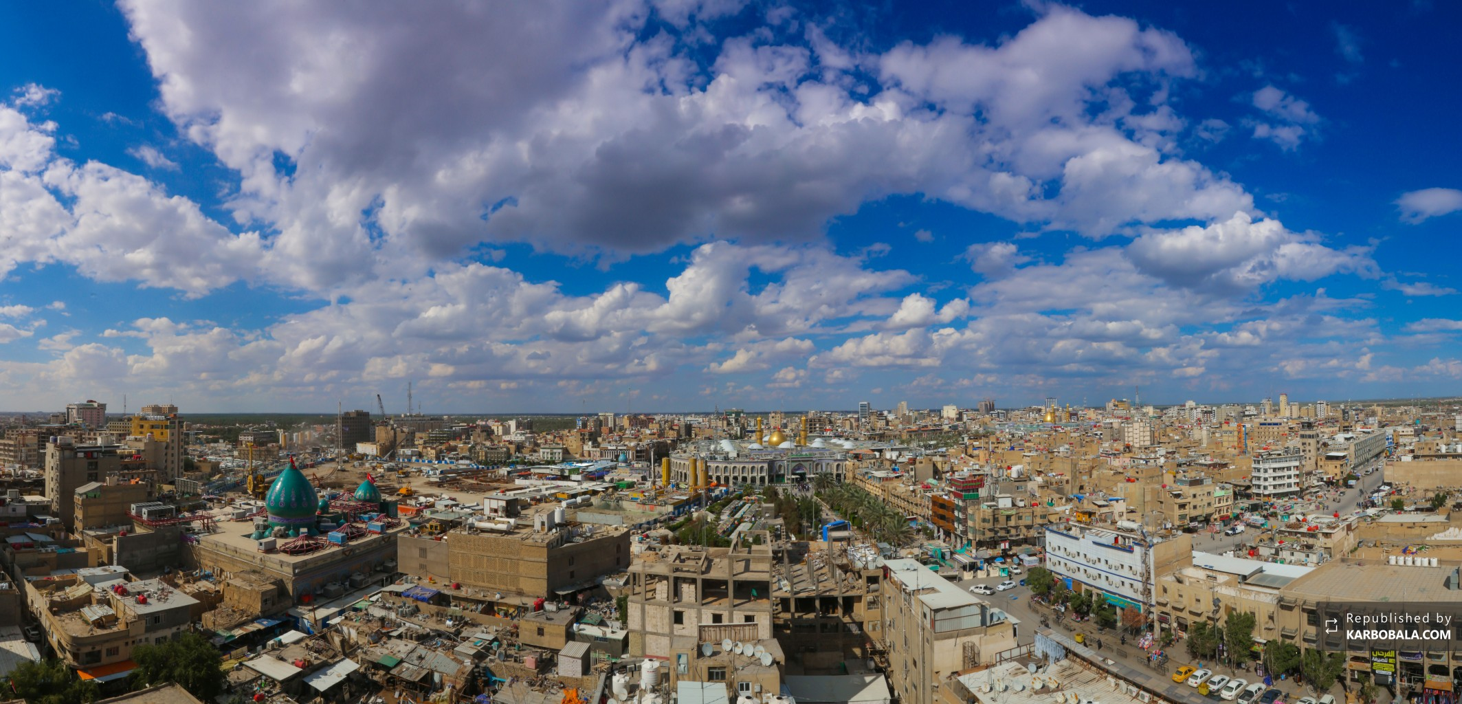 Karbala City